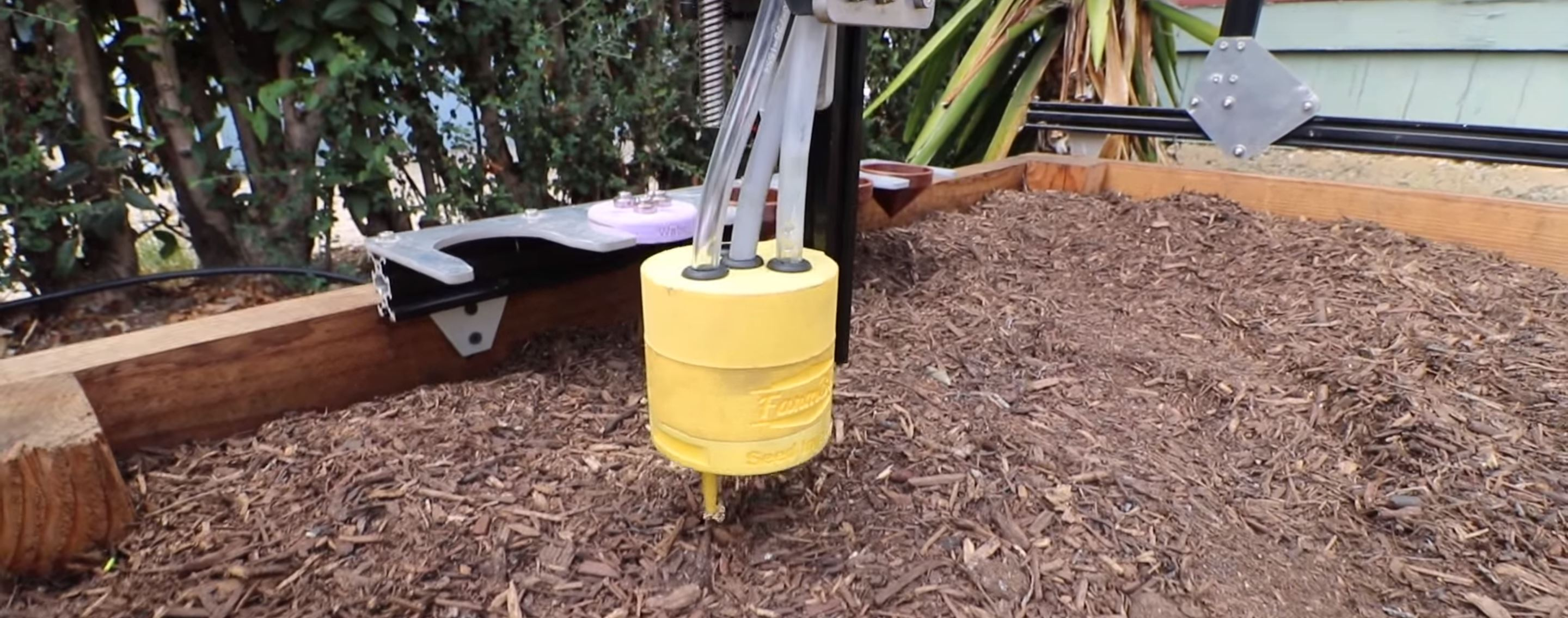 FarmBot Genesis Seed Injection